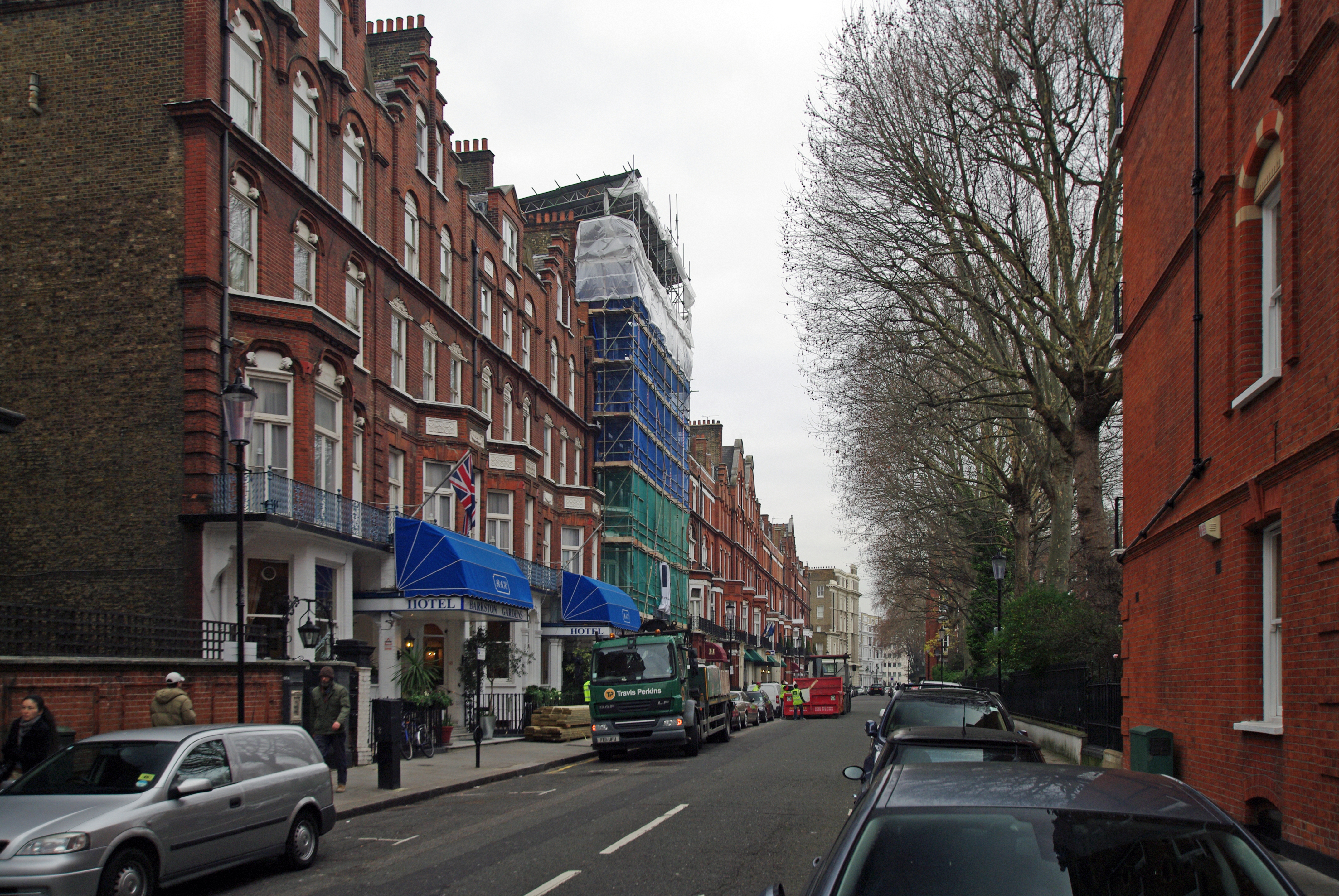 Barkston Gardens Street seen from the West